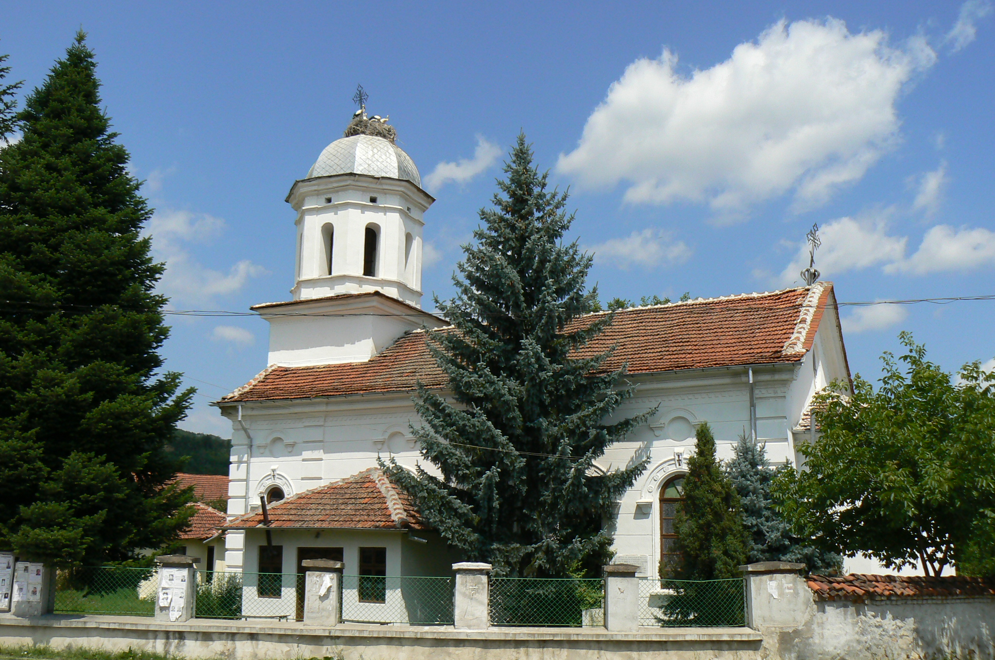 Church "Kosma and Damyan" in village Skravena, Bulgaria.